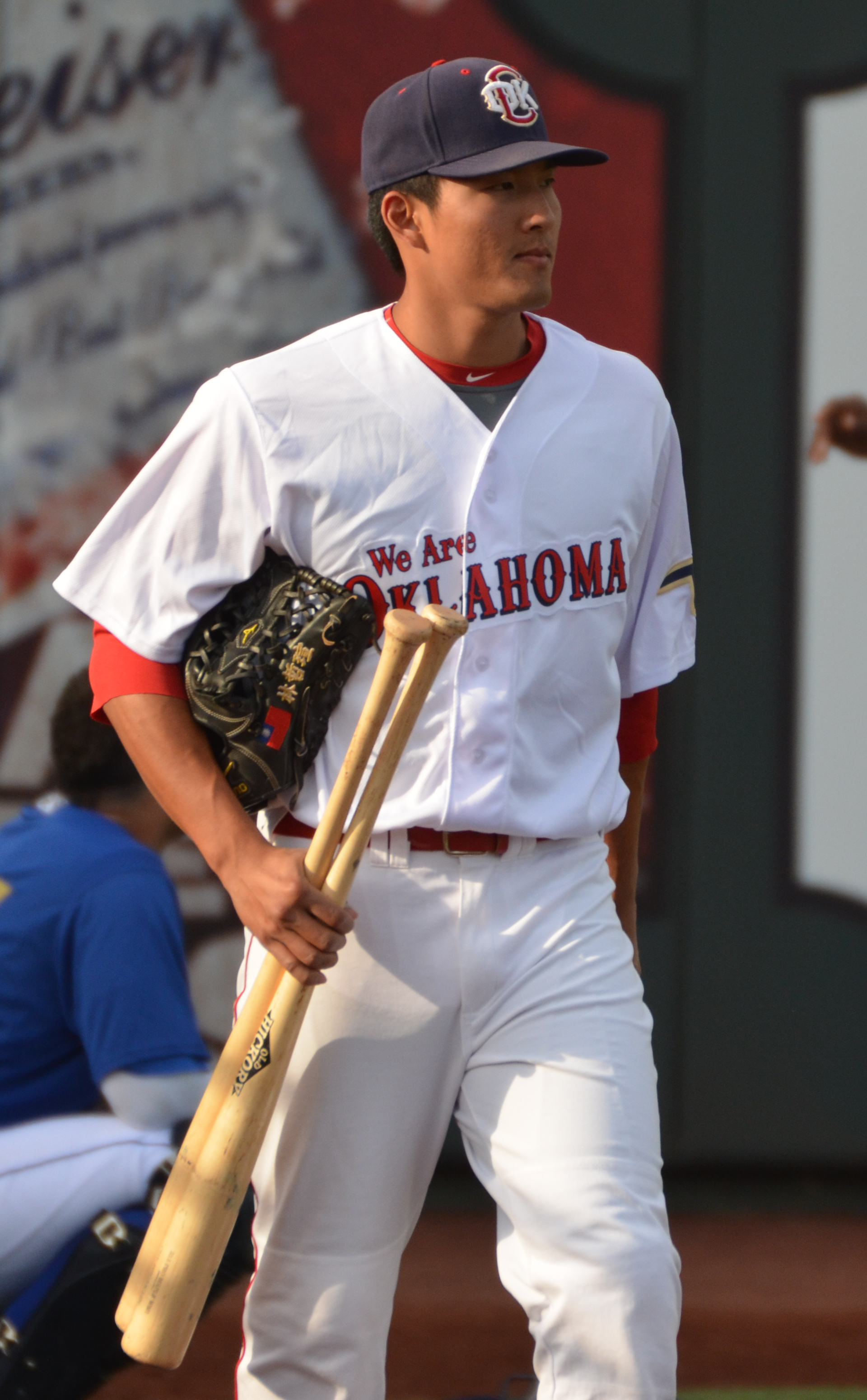 Che-Hsuan Lin